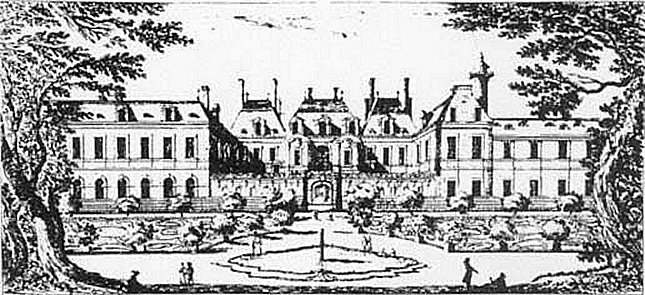 Engravingof the Hôtel de Soissons, formerly the Hôtel de la Reine, in Paris.